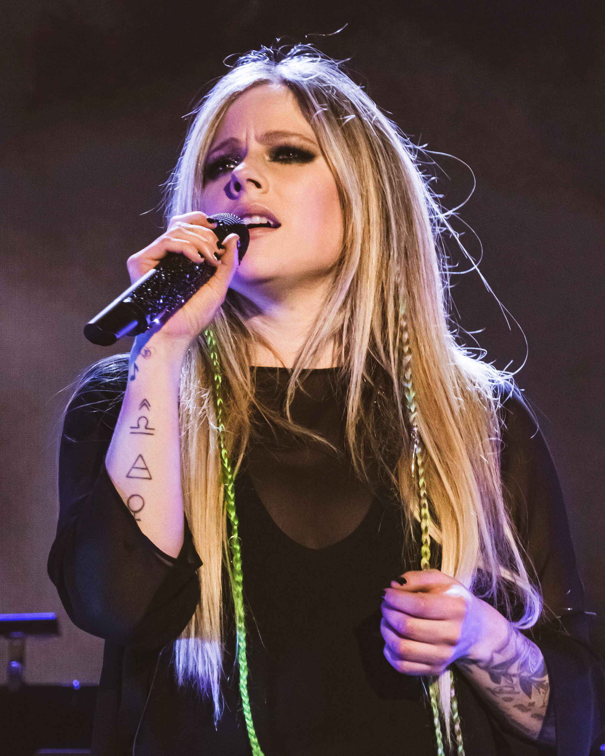 Avril Lavigne performing live at The Greek Theatre in Los Angeles on 09/18/2019.